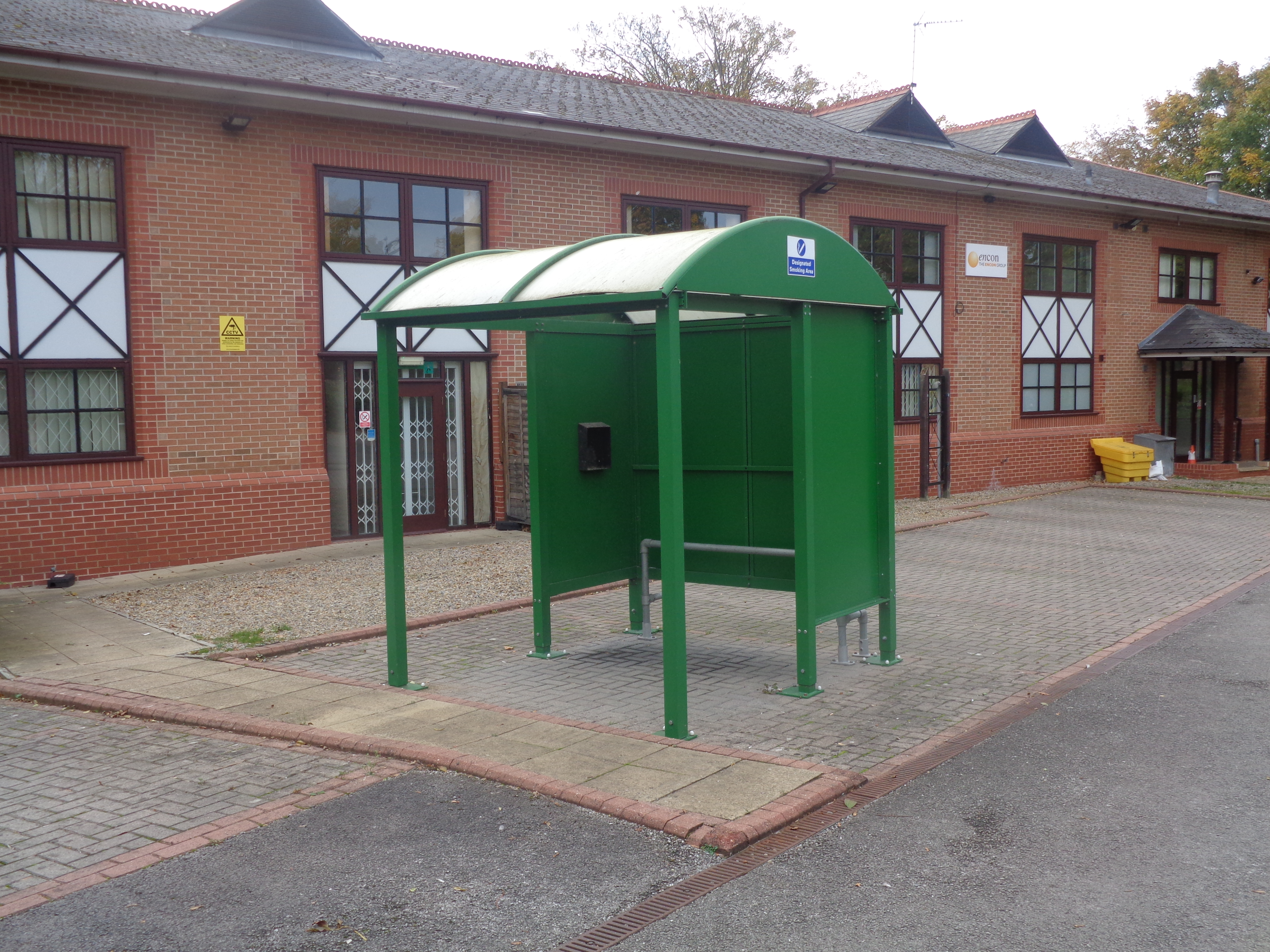 Smoking shelter to the rear of Encon, Deighton Close, Wetherby, West Yorkshire. These became a popular sight in England and Wales following the July 2007 smoking ban, most workplaces now having a little bus shelter at the end of the car park. On a lunch time hoards of workers can be seen gathered outside these little bastions of nicotine and gossip. Taken on the afternoon of Sunday the 25th of October 2015.